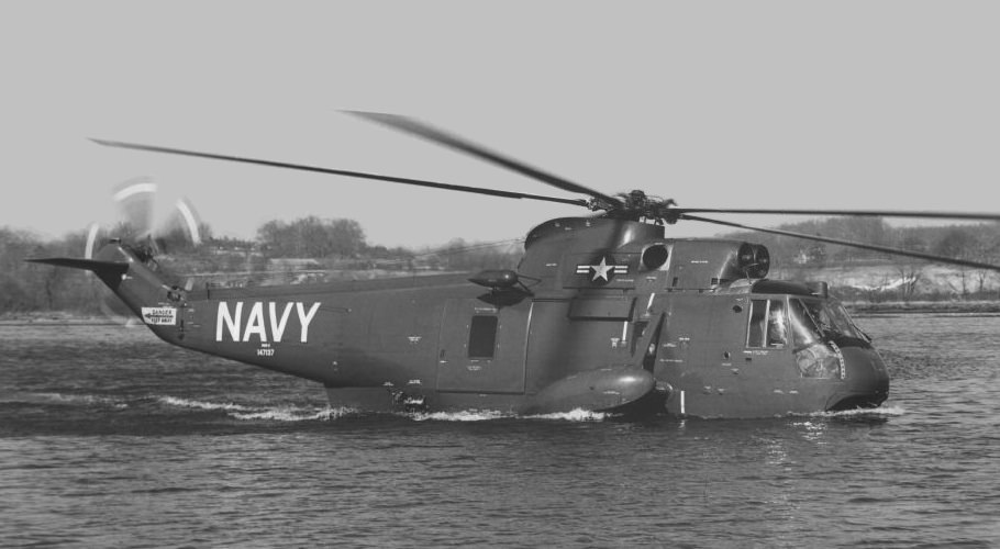 The prototype Sikorsky XHSS-2 Sea King conducts water landing trials.